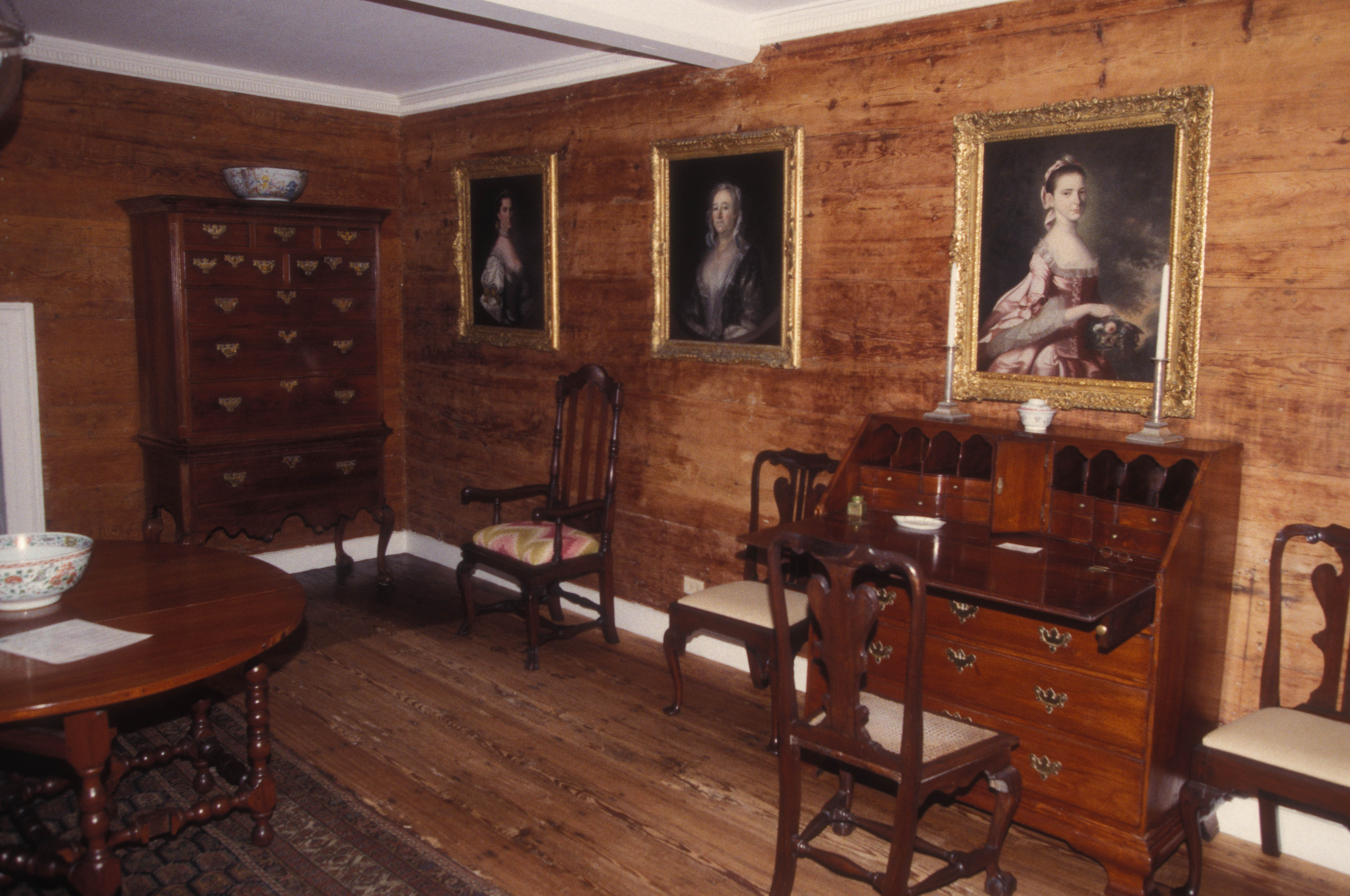 HOUSE BUILT IN 1710; BY A SHIP OWNER NAMED JOHN DICKINSON; JOHN GREEN, A PHILADELPHIA LOYALIST, CUSTOMS OFFICIAL AND PAINTER, FLED PHILADELPHIA AT THE END OF THE REVOLUTIONARY WAR AND MARRIED ONE OF DICKINSON'S GRANDDAUGHTERS; PORTRAITS IN THE HOUSE ARE BY GREEN WHO ALSO SERVED AS JUDGE OF THE COURT OF THE VICE ADMIRALTY; PANELING IS OF BERMUDA CEDAR; FURNITURE IS COLLECTED FROM VARIOUS OLD HISTORIC HOMES ON BERMUDA; MOST FAMOUS OF ALL BERMUDA TRUST PROPERTIES